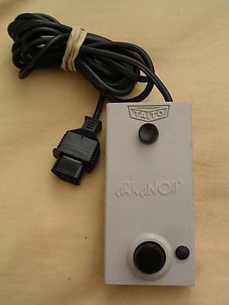 Arkanoid Controller, or Vaus, for the NES, by Taito